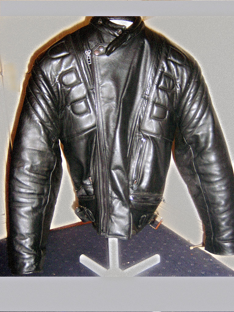 My leather motorbike jacket